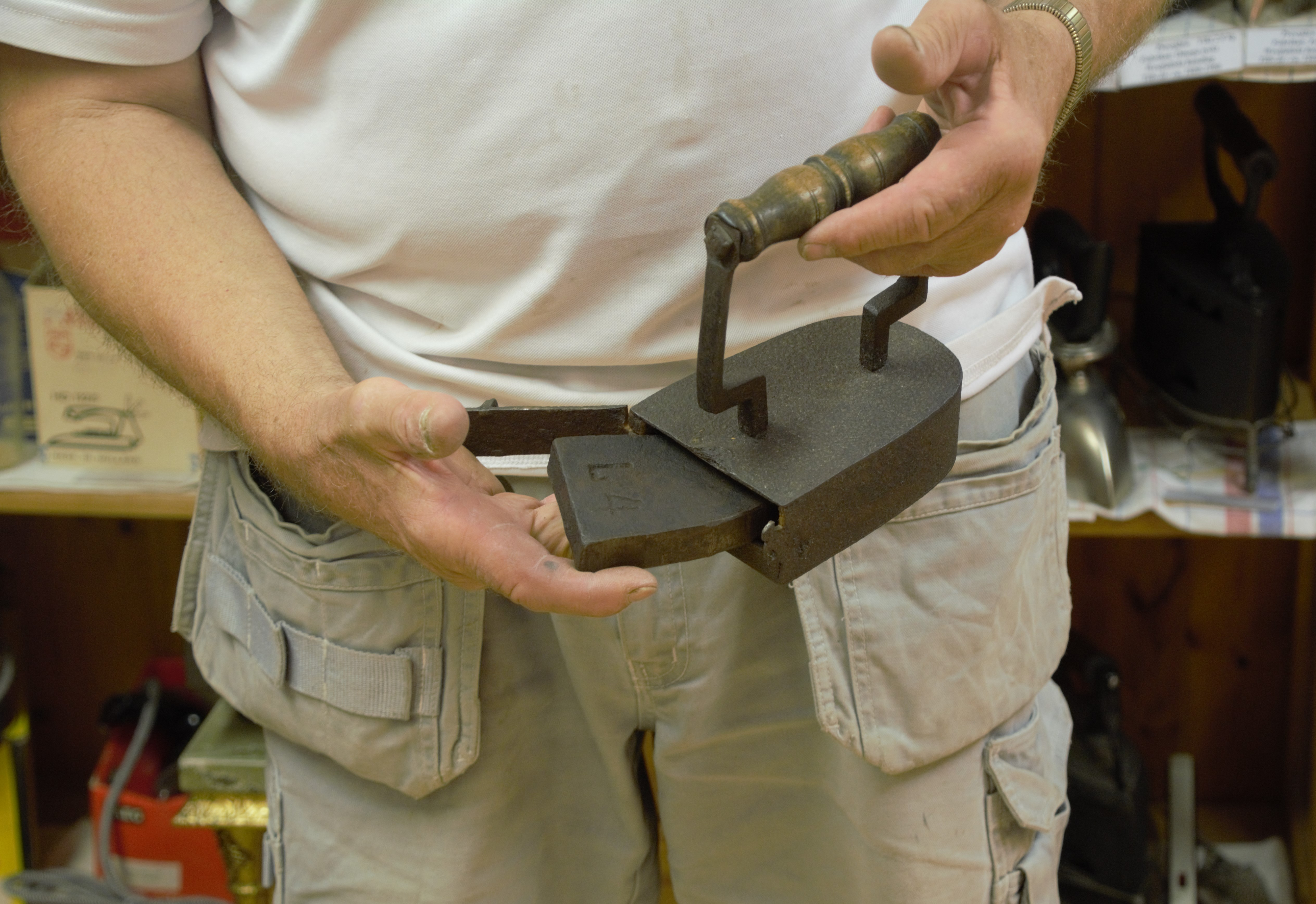 17th Century Clothes Iron at Strykjärnsmuseum i Malmköping, with heated metal device.